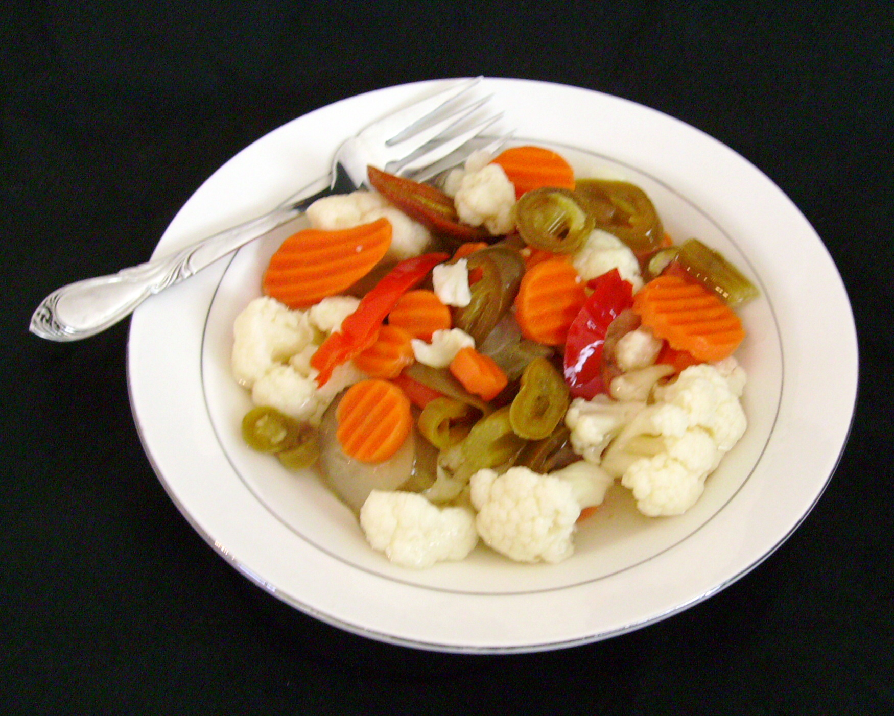 A spicy mix of vegetables known as giardiniera.